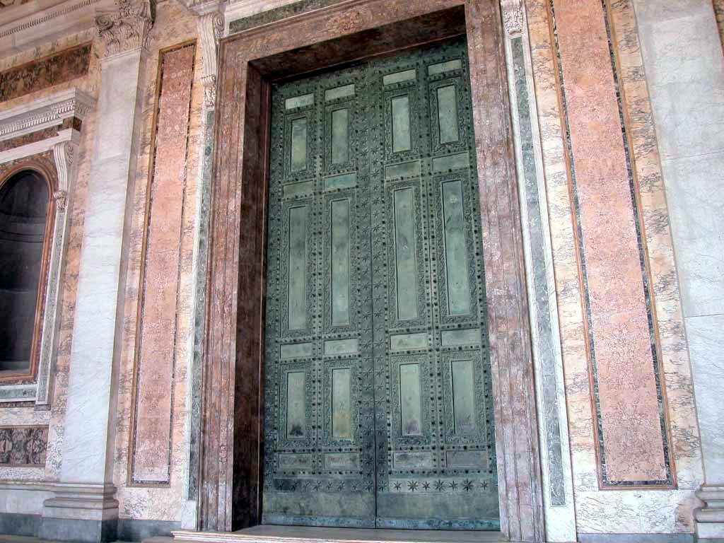 Main doors of Lateran Basilica, once the doors on the Roman Senate House of Diocletian (made into a Church in A.D. 630 by Pope Honorius I